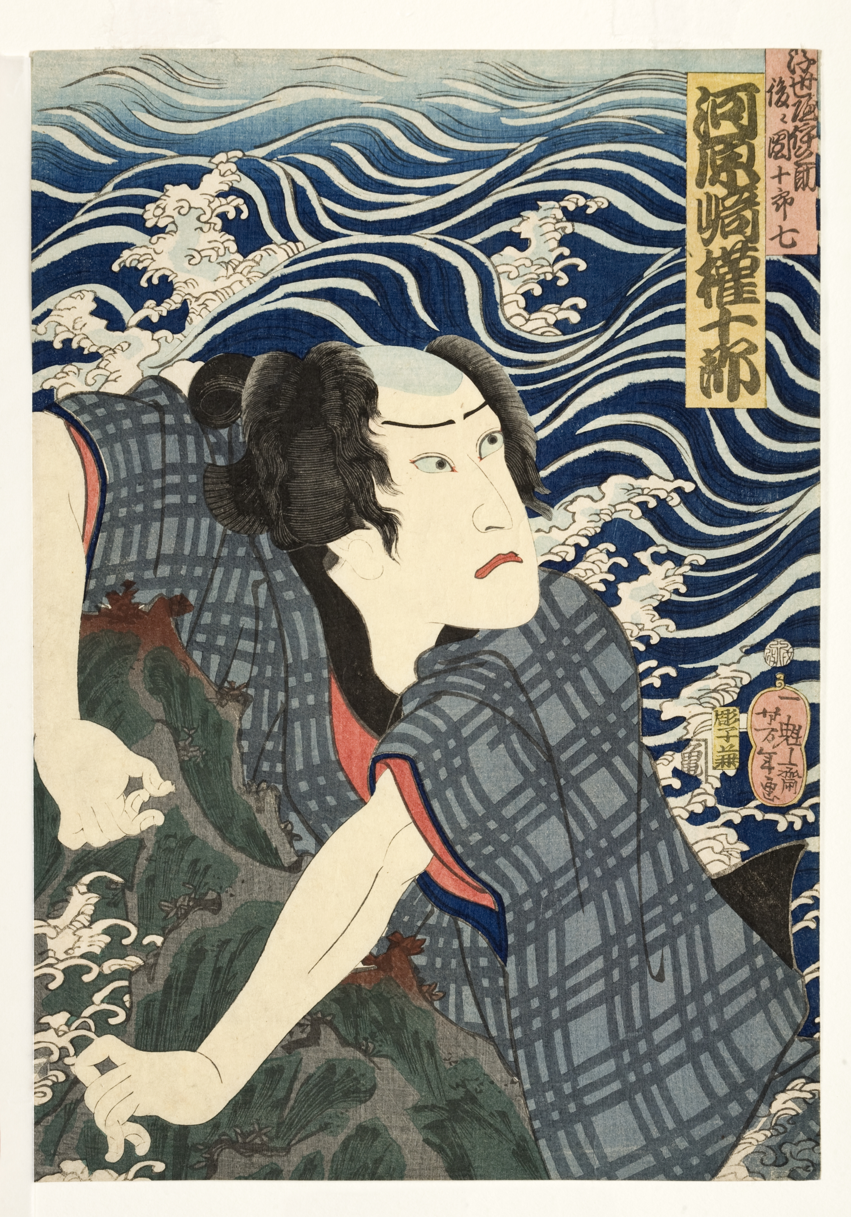 Accession Number: 1983.5 Display Artist: Yoshitoshi (1839–1892) Alternative names Taiso YoshitoshiDescriptionJapanese artist, ukiyo-e artist and painterDate of birth/death 30 April 1839 9 June 1892 / 1892Location of birth/death Edo RyōgokuWork periodUkiyo-eWork location Edo, TokyoAuthority control : Q467337 VIAF: 59096037 ISNI: 0000 0000 8385 874X ULAN: 500121372 LCCN: n81029697 NLA: 49286334 WorldCat creator QS:P170,Q467337 Display Title: "The actor Kawarasaki Gonjuro I as Ukiyo Inosuke, later Danjuro IX" Creation Date: 1862 Height: 13 7/8 in. Width: 9 3/4 in. Display Dimensions: 13 7/8 in. x 9 3/4 in. (35.24 cm x 24.77 cm) Publisher: Kameya Iwakichi Credit Line: Gift of Mrs. William T. Stephens Collection: The San Diego Museum of Art